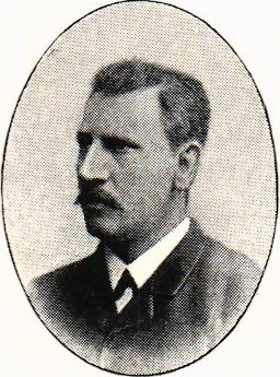 Johan (John) Magnus Redtz (born 1837), Swedish building contractor